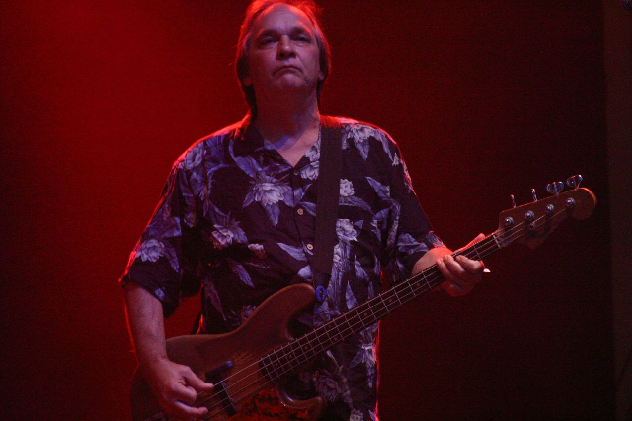 Country Joe and the Fish